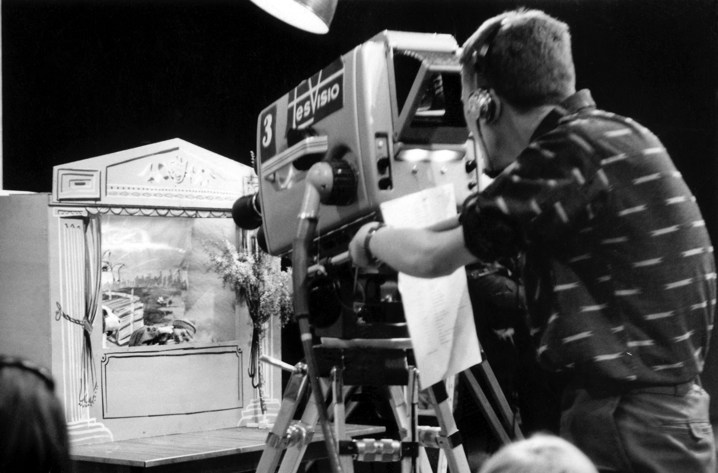 Tesvisio, 1957-1965, the first television channel in Finland. Cameraman Matti Hämäläinen at work in the television studio. Finnish Broadcasting Company bought Tamvisio in 1964 and Tesvisio in 1965 and together the channels merged as Yle TV2. Tesvision kameramies Matti Hämäläinen kuvaamassa studiolla